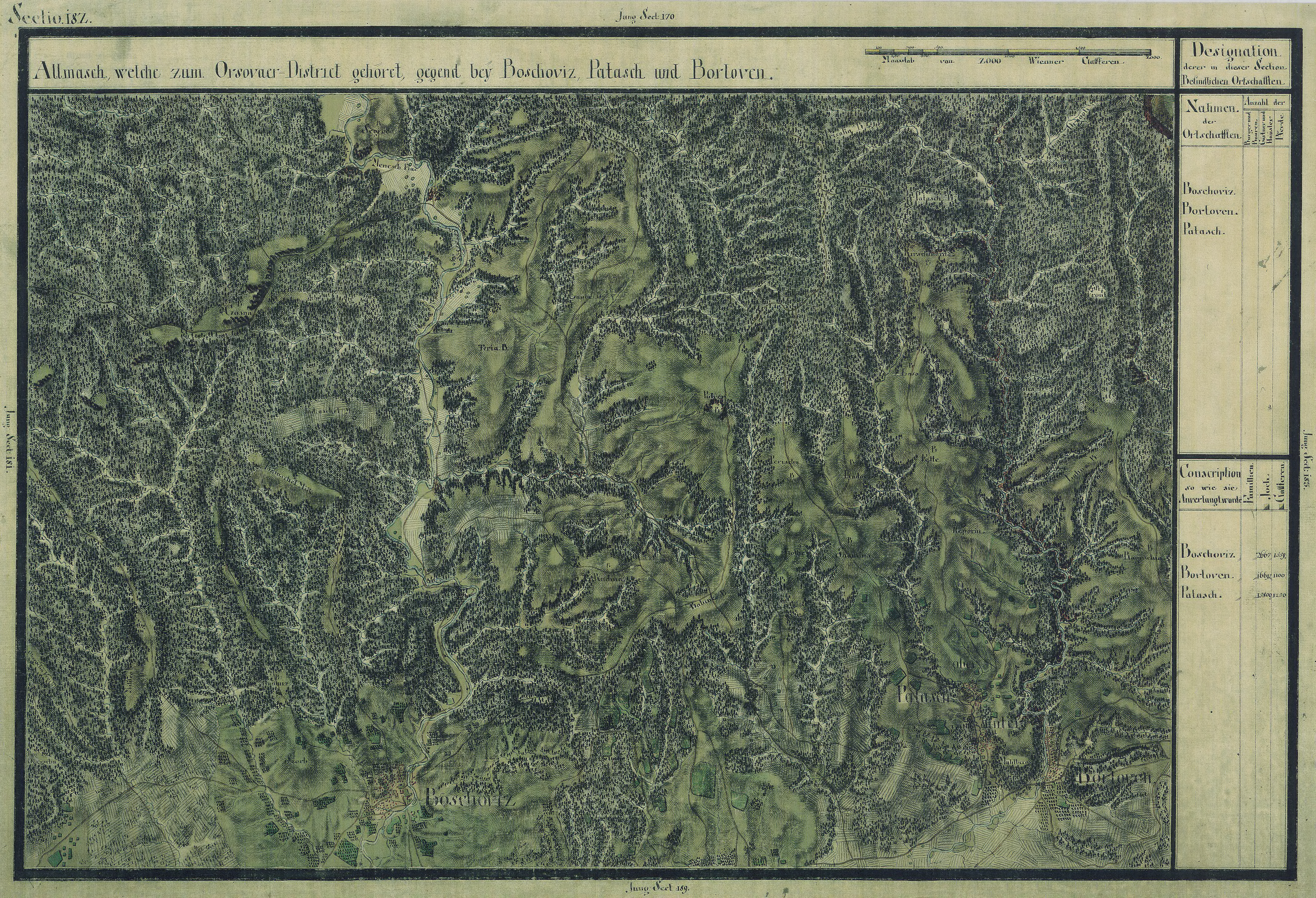 The Banat region in the cadastral maps: Josephinische Landesaufnahme, 1769-72. Josephinische Landaufnahme pg182